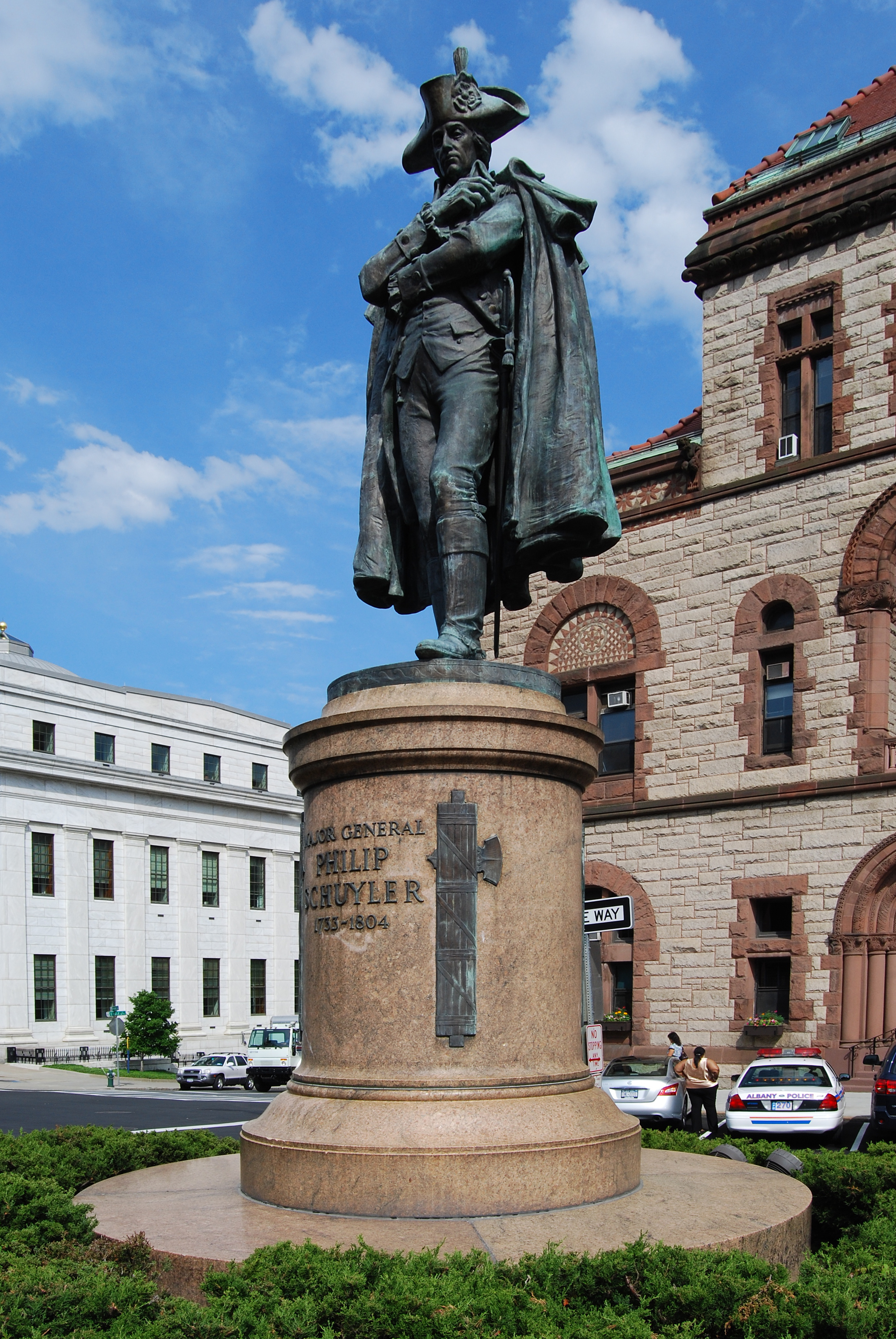 Statue of Philip Schuyler, major general in the American Revolution and United States Senator from New York, by J. Massey Rhind located outside Albany City Hall in Albany, New York, United States